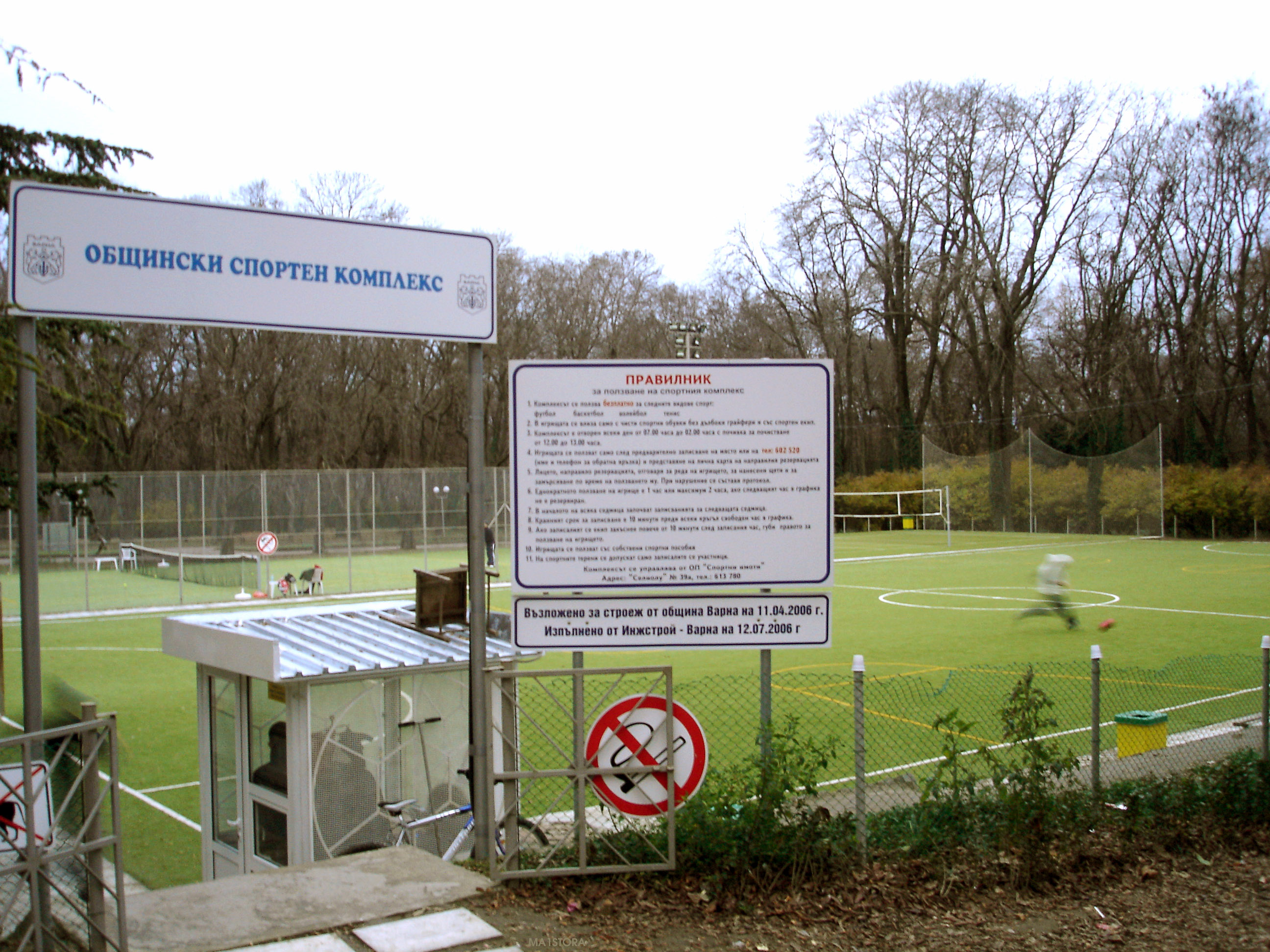 Sport complex in Varna